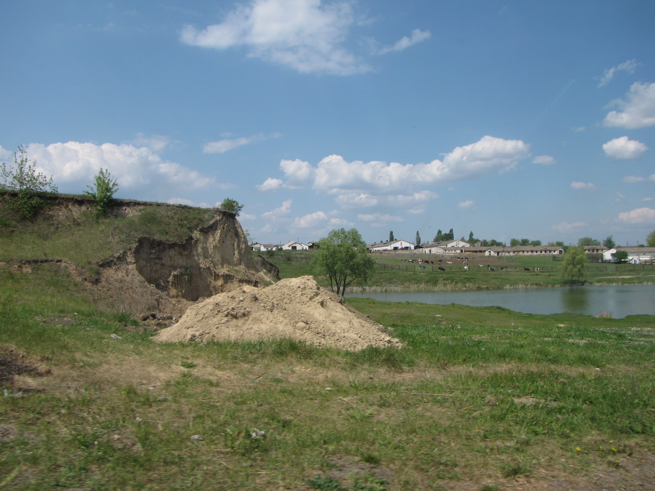 A picture is in the village of Deremezna.